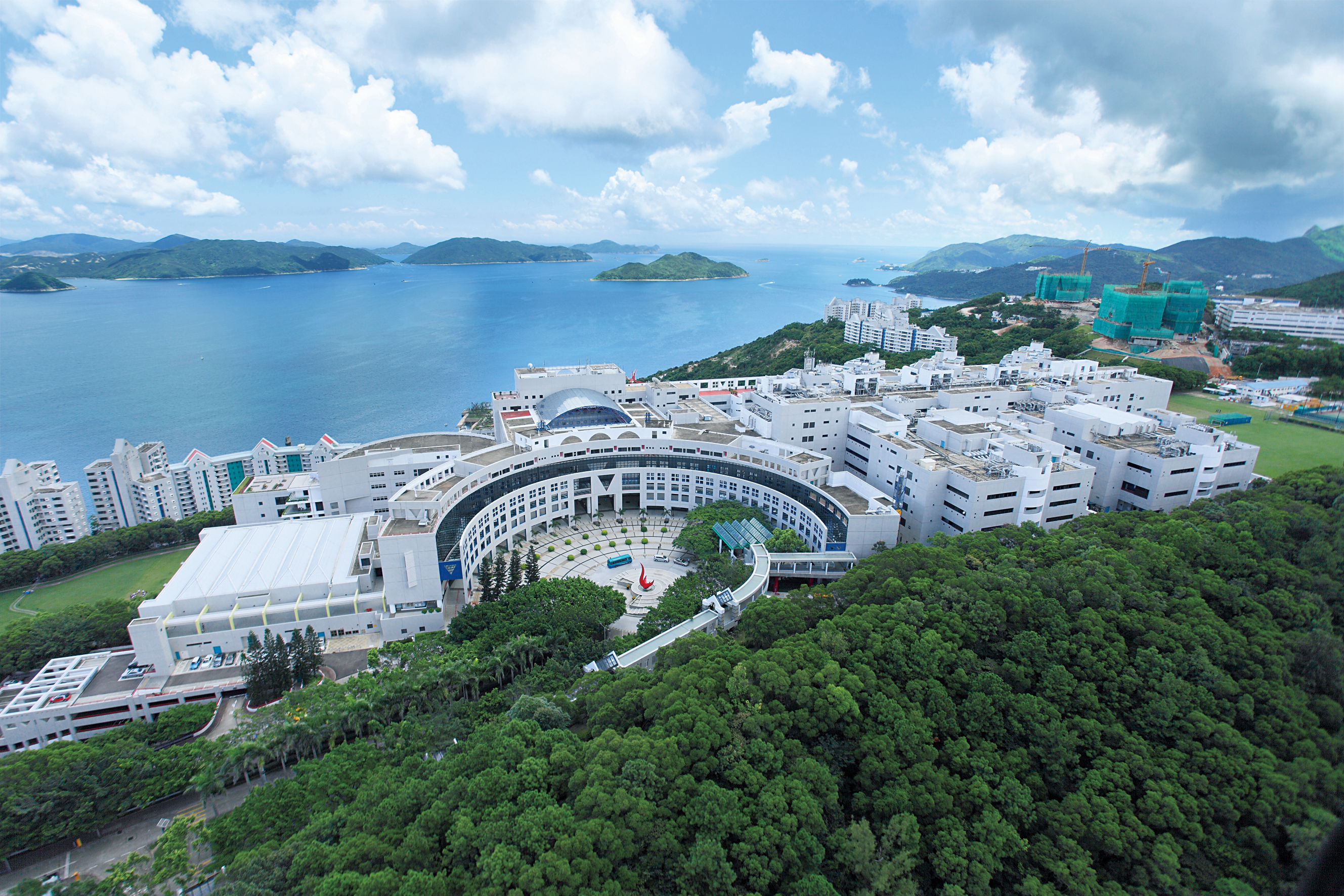 HKUST campus view looking from above, photo taken in 2012.